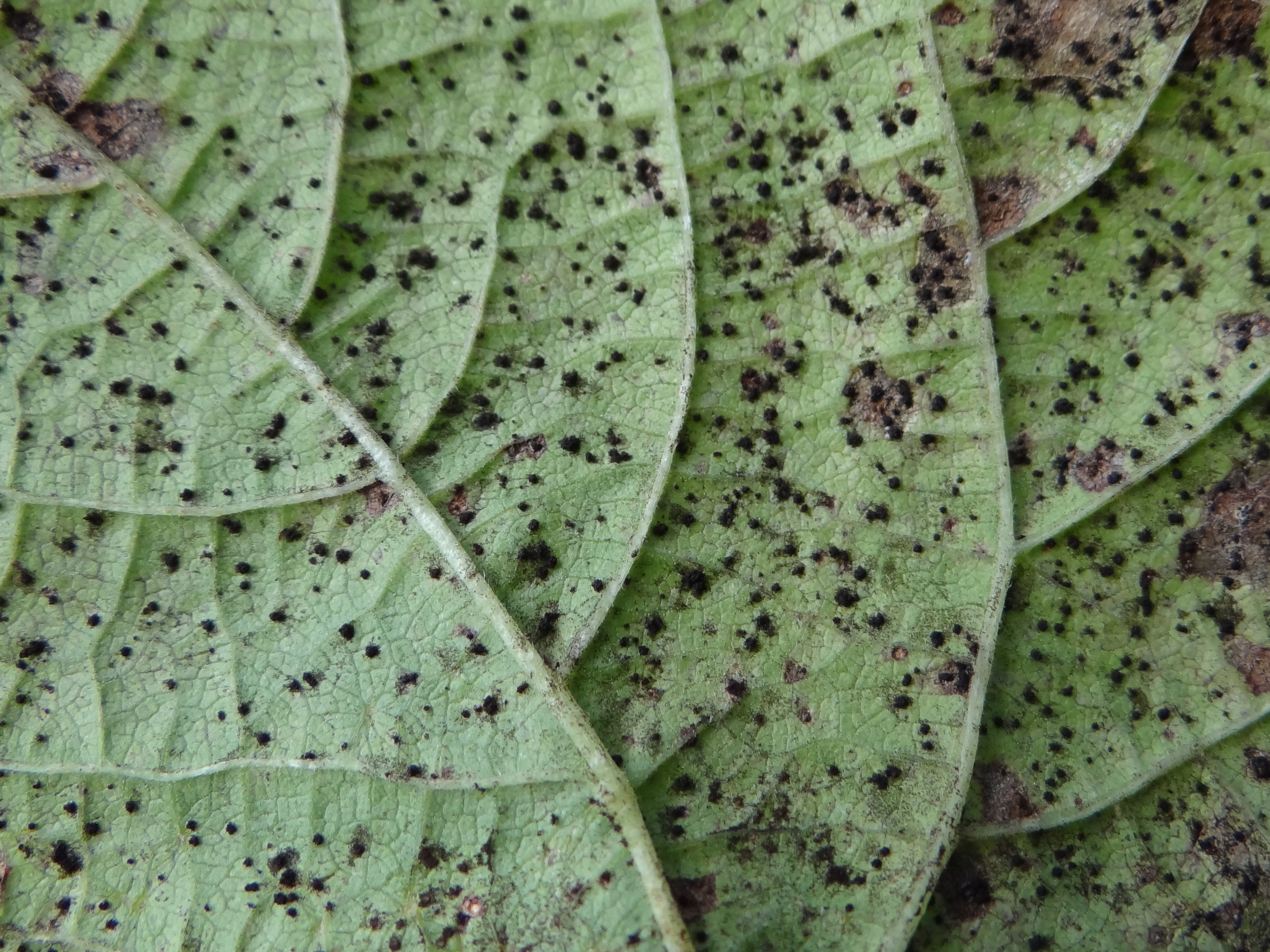 Uromyces appendiculatus on Phaseolus